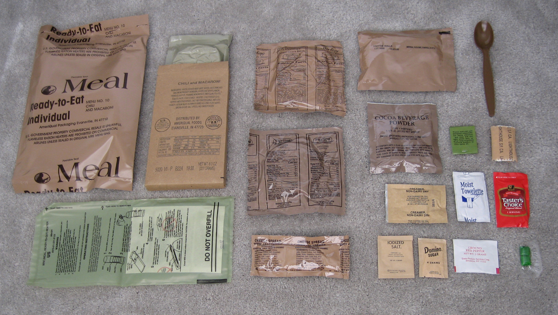 An MRE contains a complete meal for use in the field. This was given out by United States National Guard after Hurricane Rita. Menu #10 Chili and Macaroni Wheat snack bread Molasses cookie Cheese spread with jalapenos Tootsie rolls salt sugar coco beverage powder ground coffee ground red pepper gum moist towelette paper napkin matchbook spoon Taken next to the window on carpet, cropped in Adobe Photoshop. (Further post-processing is welcome if I don't get around to it.)